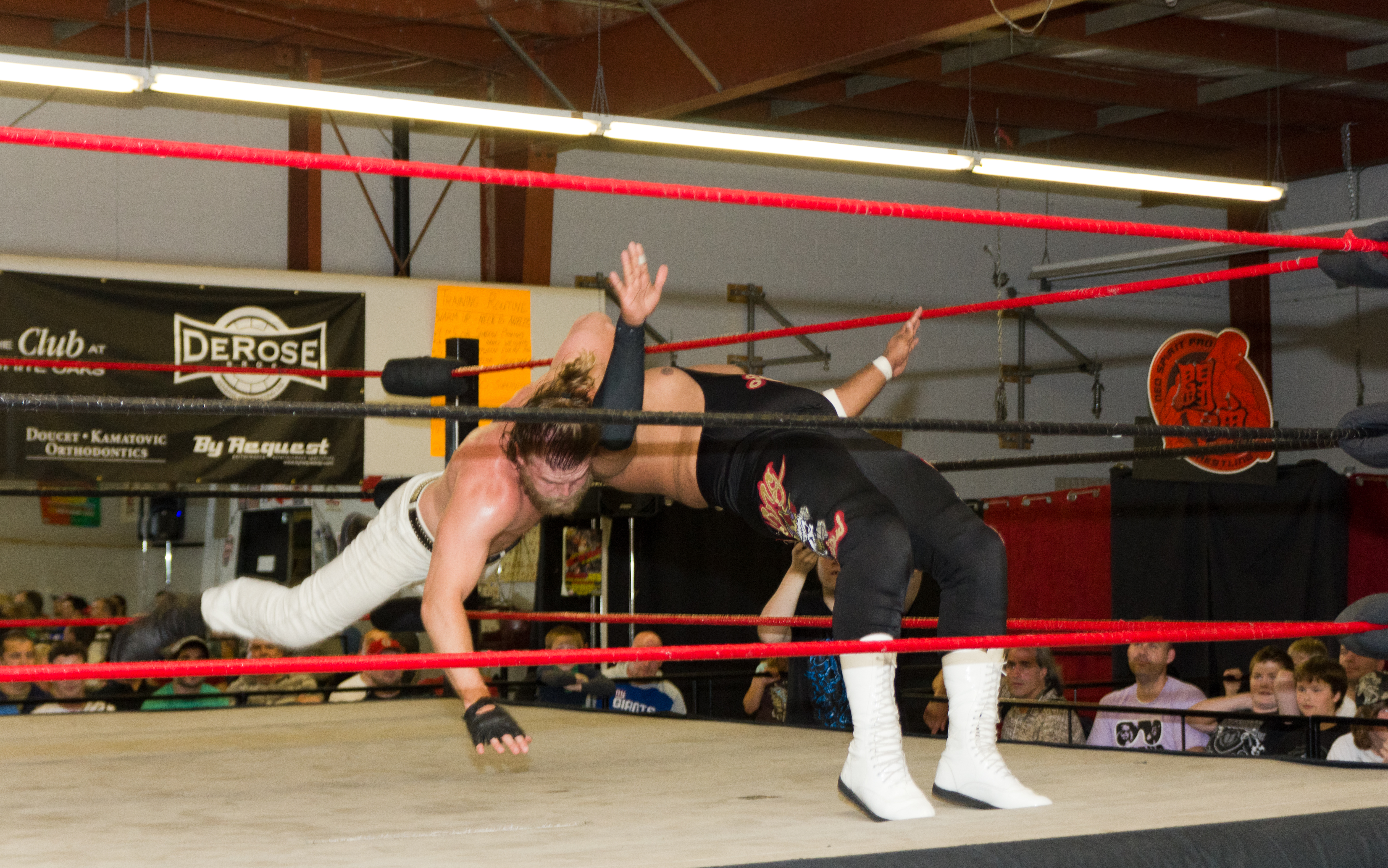 Cody Deaner executing his Giver Drop finisher on Tiberius King at a Neo-Spirit Pro show in Niagara Falls